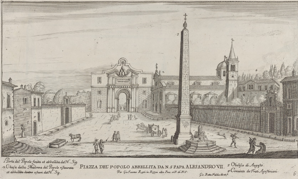 View of Piazza del Popolo and Porta del Popolo (1 in the image) opening on the northern side of the square towards Via Flaminia. On the right of Porta del Popolo, sits the Church of Madonna del Popolo (2 in the image) and behind the church, there is the Convent of Augustinian Fathers (4 in the image). On the center right of the image, the obelisk of Augustus (3 in the image) stands out, occupying today a central spot due to the later reconfiguration of the square's layout.